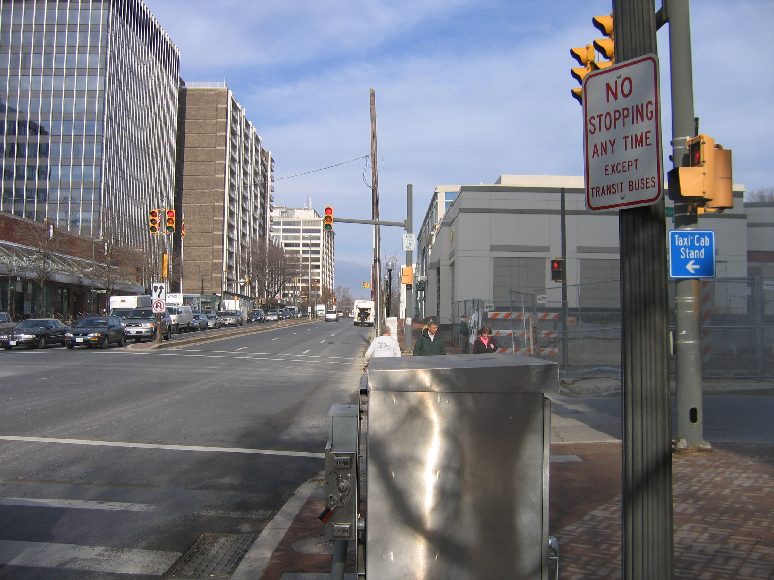 MD 355 (Wisconsin Avenue) at Willard Circle, Friendship Heights / Friendship Village, MD, USA